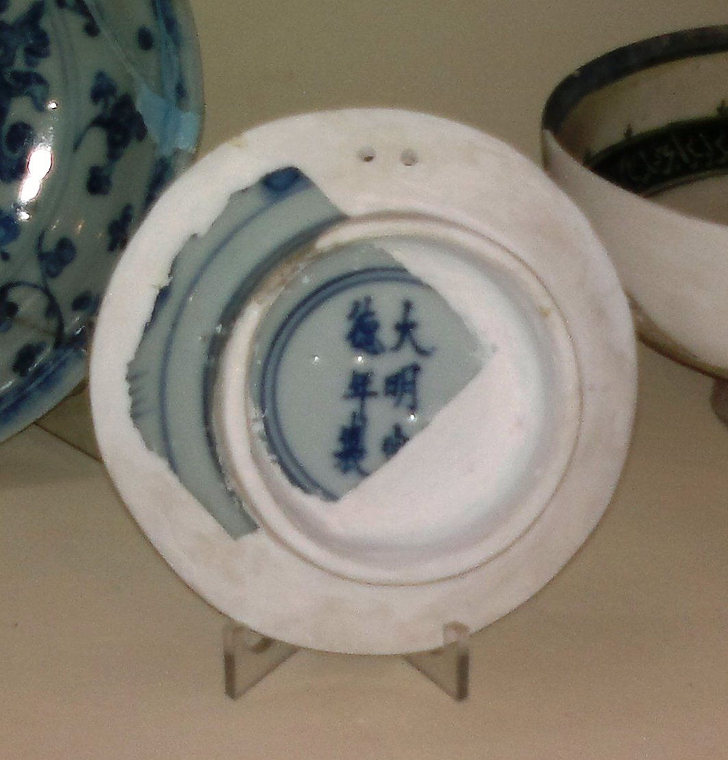 Plate with the name of Xuande Emperor (Beylagan)